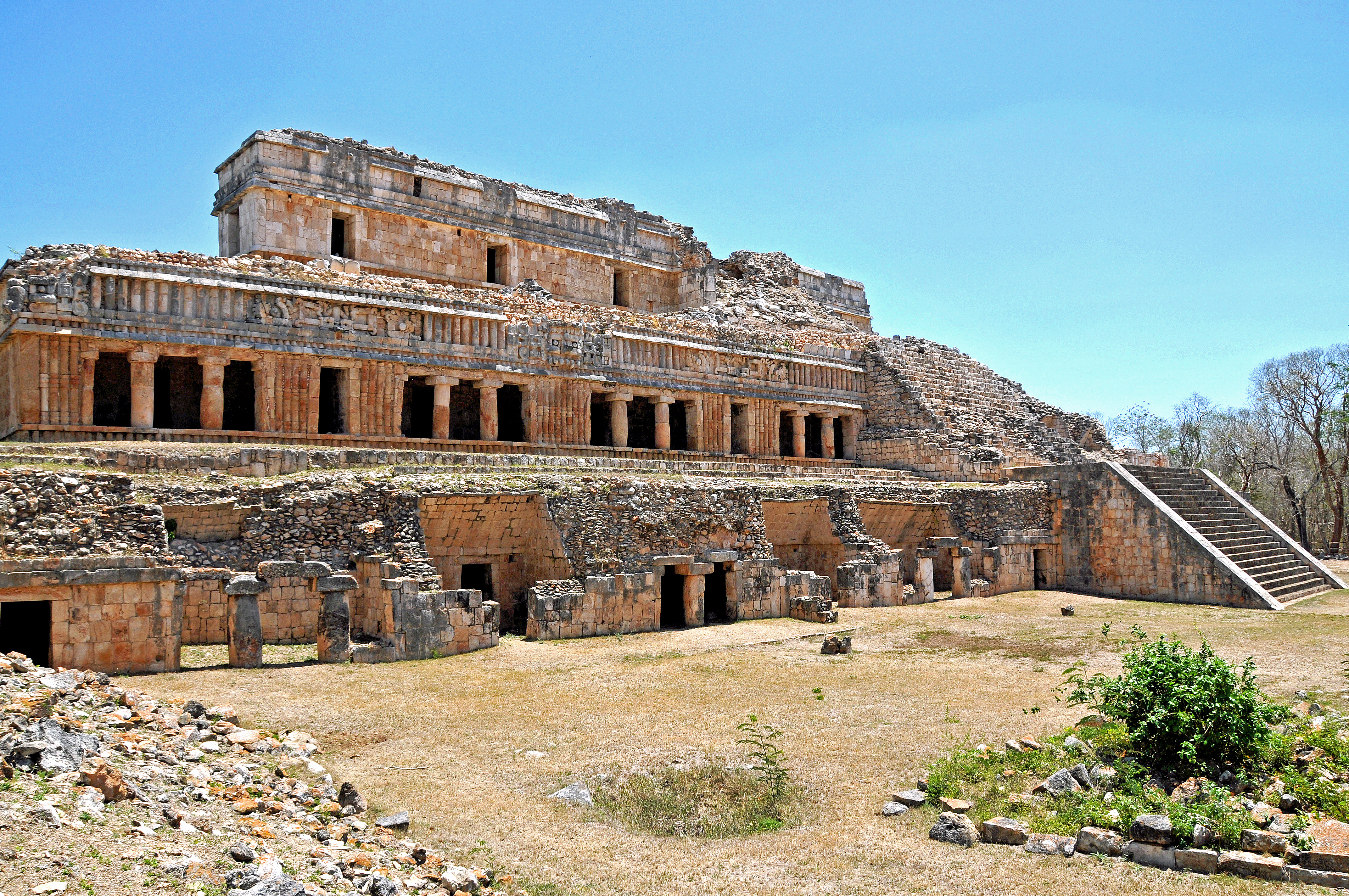 PLEASE, NO invitations or self promotions, THEY WILL BE DELETED. My photos are FREE to use, just give me credit and it would be nice if you let me know, thanks. Sayil is a Mayan archaeological site in the Mexican state of Yucatán, in the southwest of the state, south of Uxmal. It was incorporated together with Uxmal as a UNESCO World Heritage Site in 1996 The Great Palace is one of the most beautiful of all Mayan structures, it is the most important building in Sayil and its lengthy form of three levels contains 98 rooms. The main facade looks to the south and is located on a platform from where the "sacbé" (road) begins. An ample stairway leads from the ground to each of the three floors. Roof of the first and second floors also serve as terraces, since each level is recessed. The walls of the second story are decorated with columns and with large-nosed Chaac masks. The walls are also adorned with sculptures of the Gods "Ah Mucen Cab", or the bee God linked to Venus worship and "Kukulkán", the feathered serpent. All the forms are well-balanced and wide porticos alternate with rows of columns.